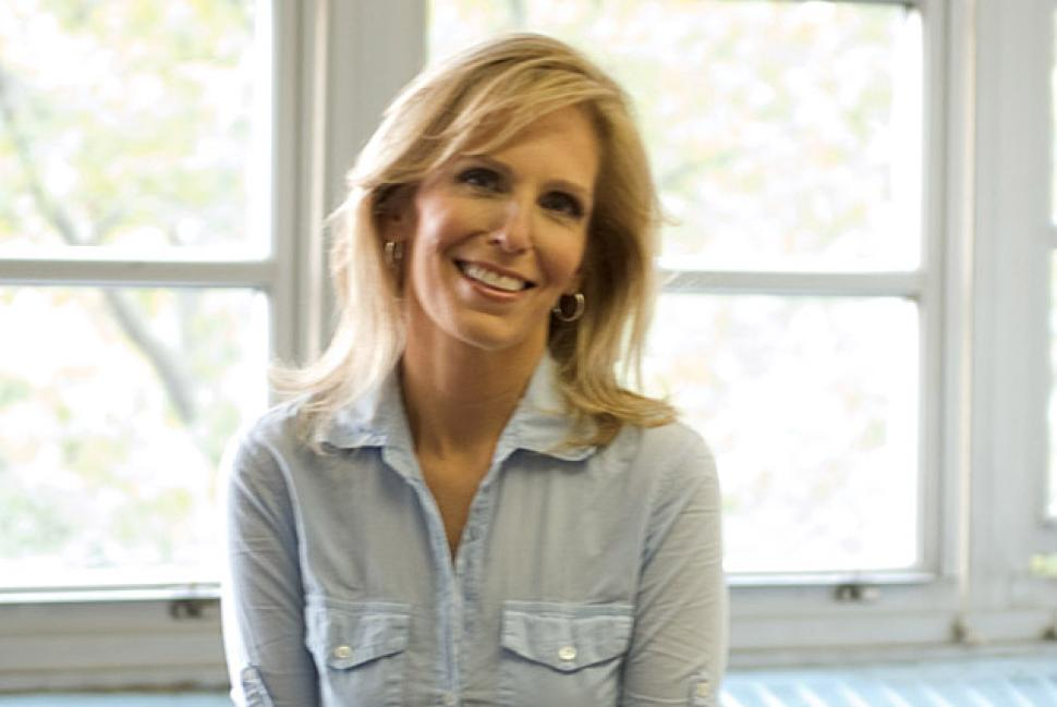 Deborah Kenny headshot